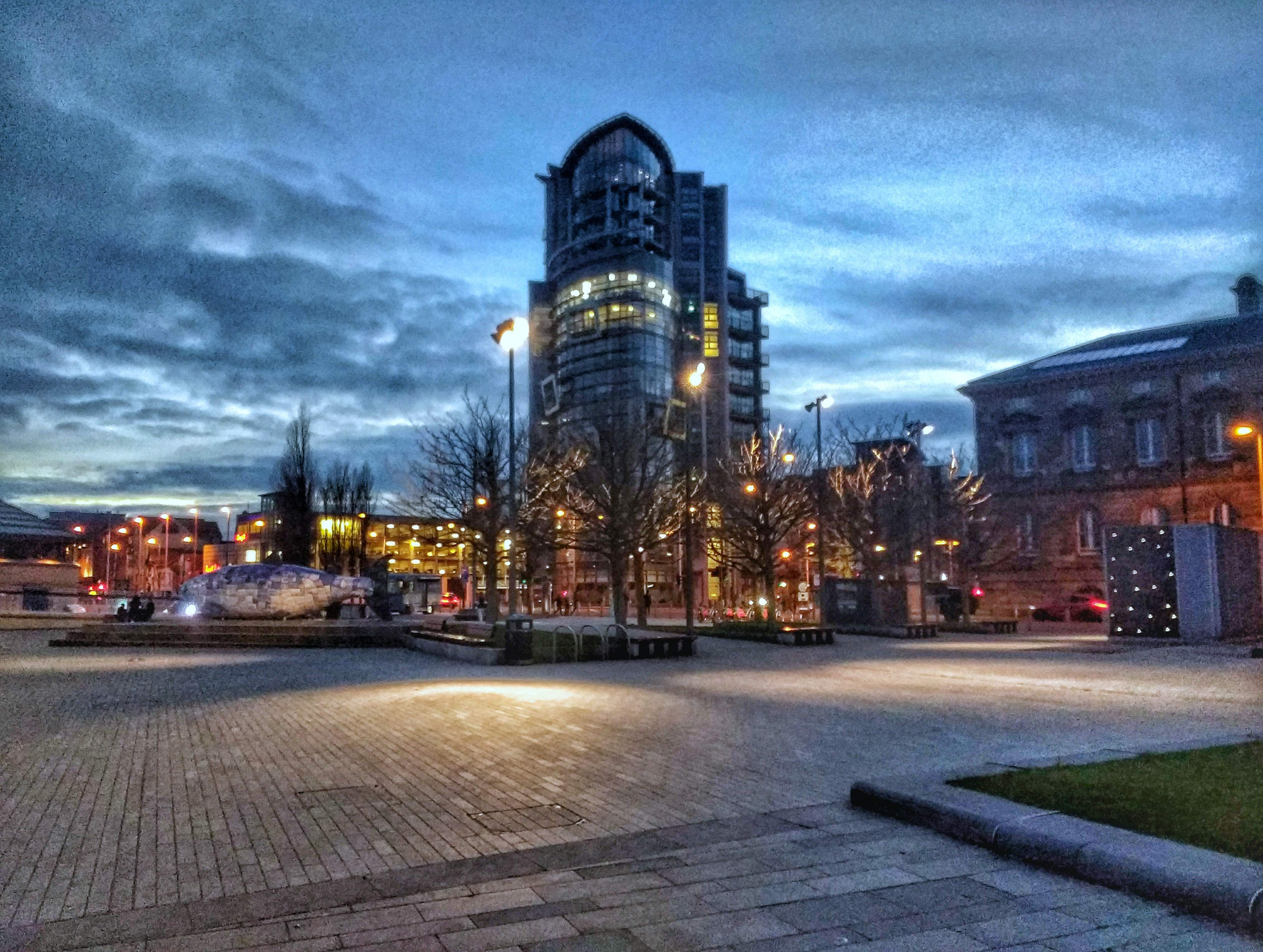 This is a photo of the City Quays. It shows a recreational ground with the Salmon of Knowledge and the Grafton recruitment building in the background.